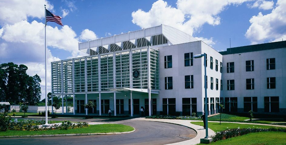 Embassy of the United States to Kenya